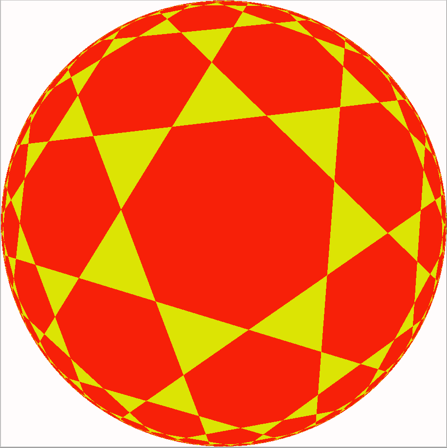 Hyperbolic tiling 3.7.3.7 in Klein projection, generated by software: KaleidoTile, Topology and Geometry Software, Jeff Weeks